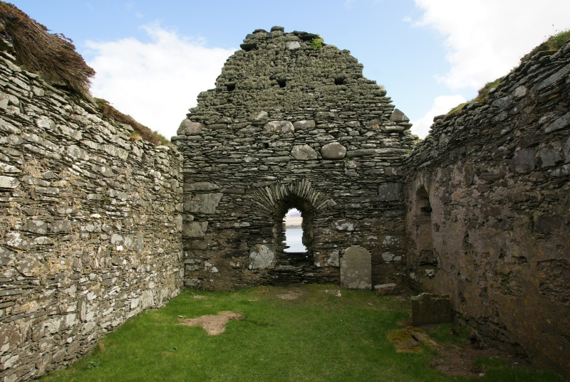 Kilnave Chapel, Islay, Argyll and Bute, Scotland. Interior looking east.